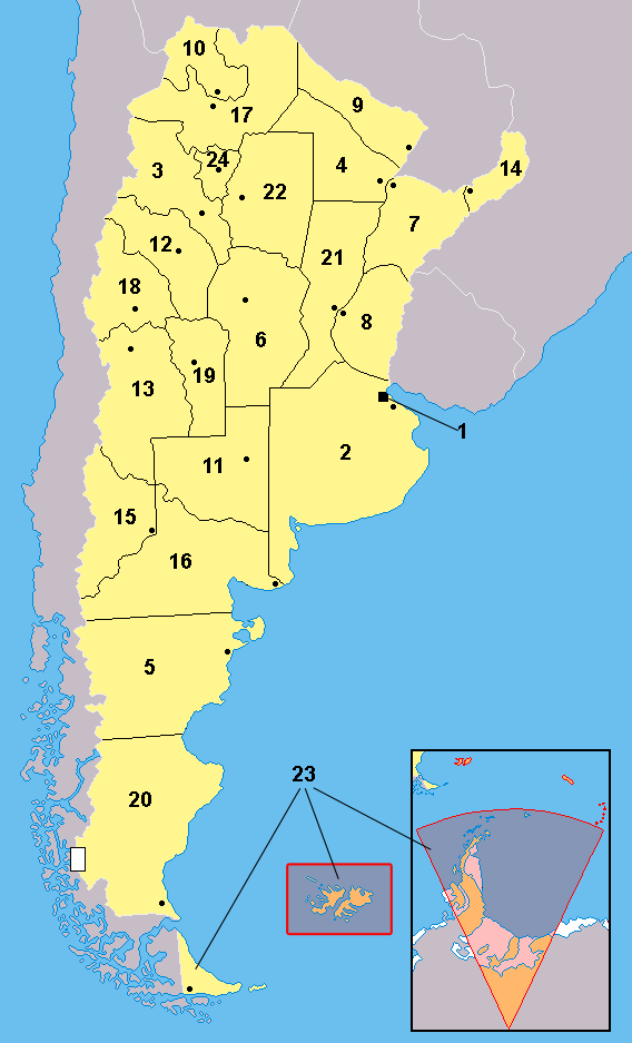 provinces of Argentina